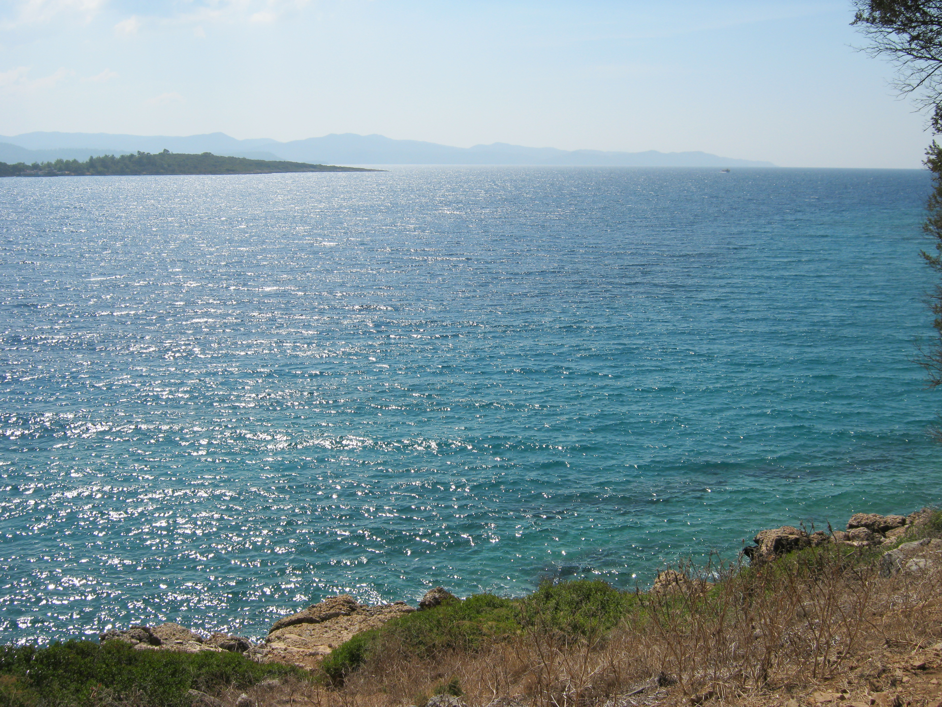 Gulf of Gökova from Sehir